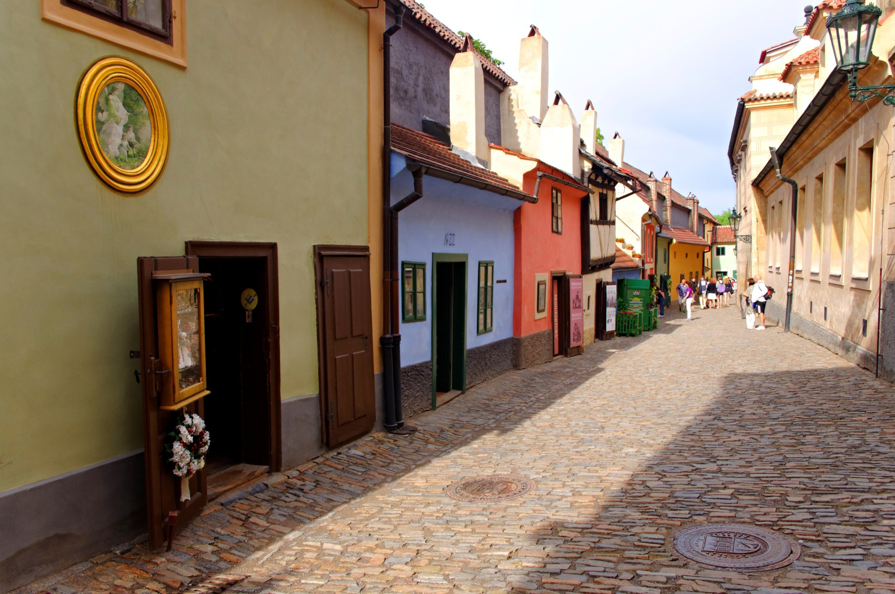 Prague 1, Czech Republic